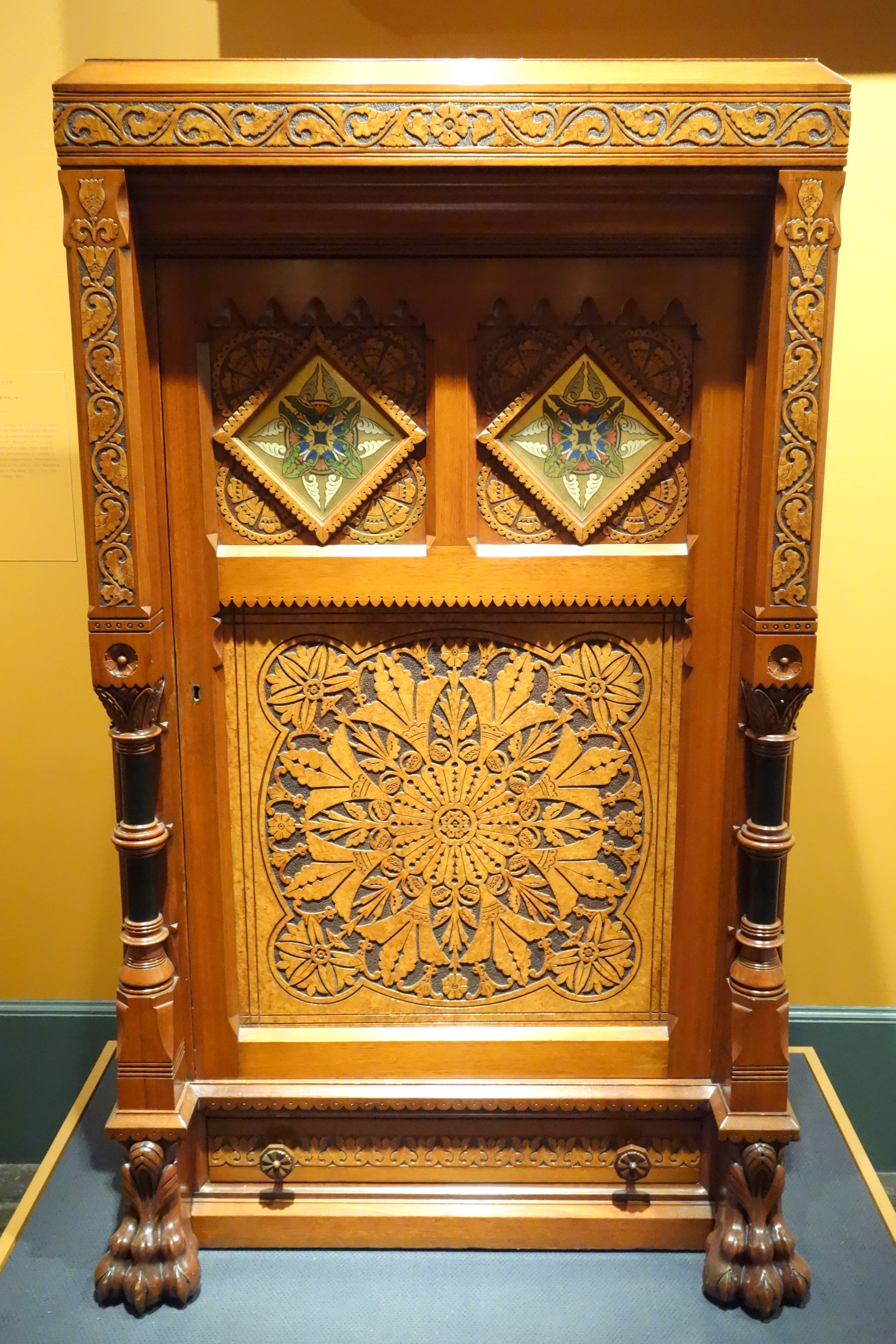 Exhibit in the Brooklyn Museum - Brooklyn, New York, USA. This artwork is in the public domain because the artist died more than 70 years ago.